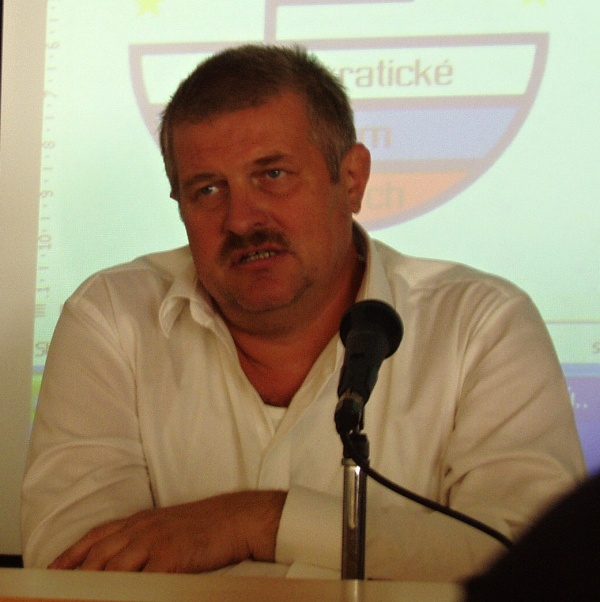 Viliam Veteska